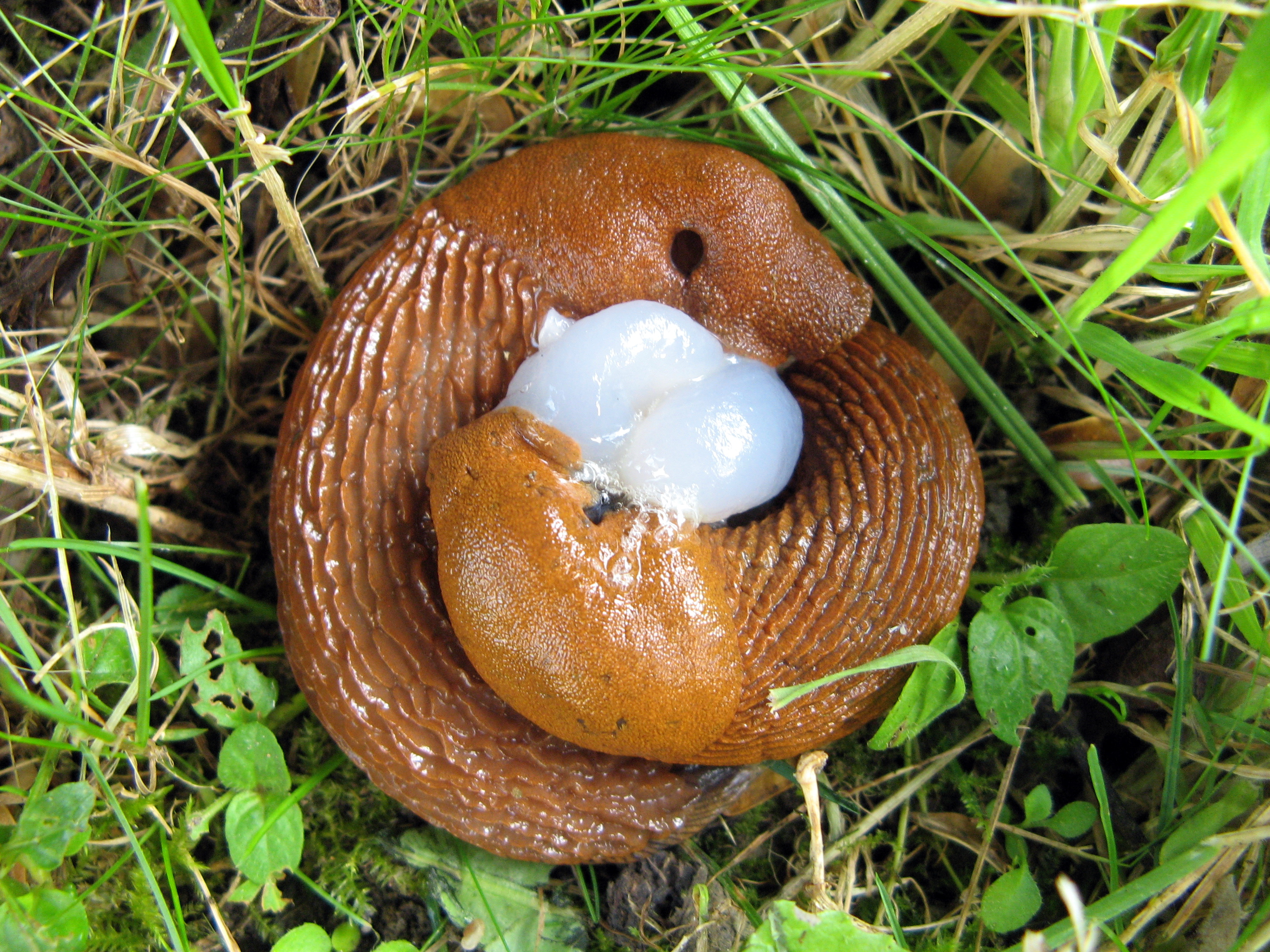 Two Arion Vulgaris slugs, terrestrial pulmonate gastropod mollusks mating.